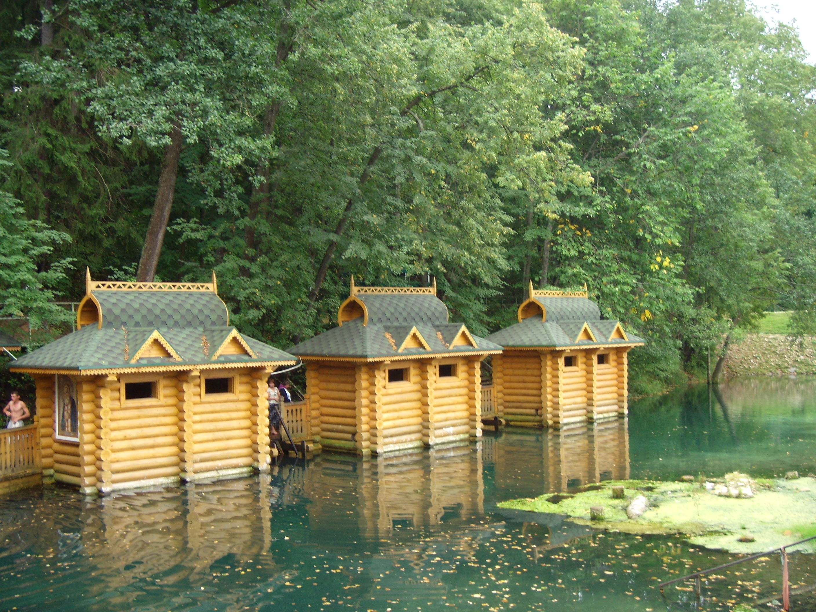 Diveevo, Russia